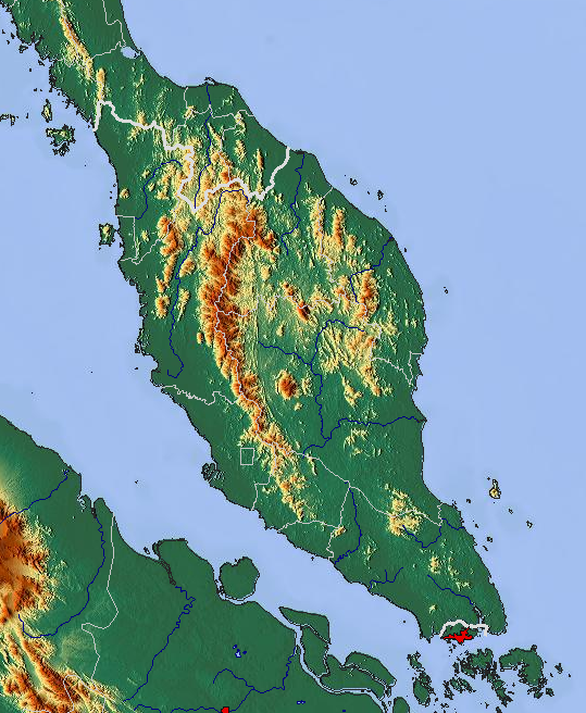 Relief map of Peninsula Malaysia Geographic limits of the map: N: 7.602° N S: 0.209° N W: 108.885° E E: 119.441° E